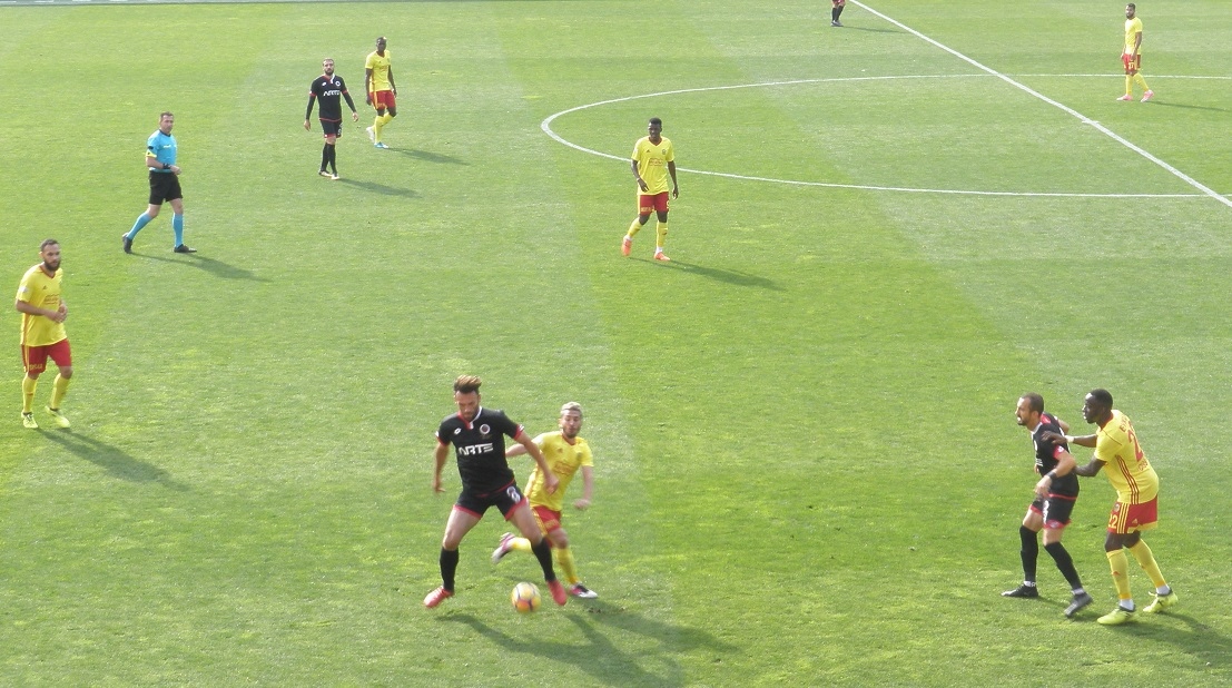 Turkish Super League match: Gençlerbirliği 0-1 Yeni Malatyaspor